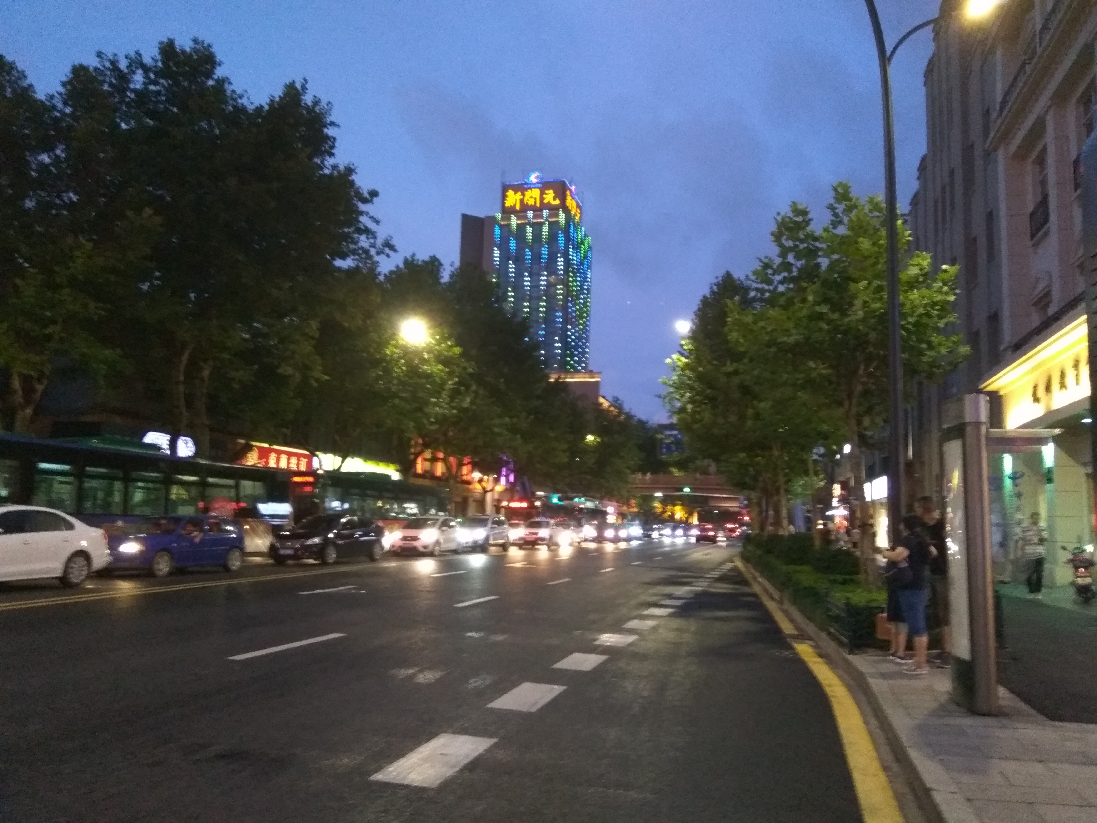 201608 Jiefang Road HGH